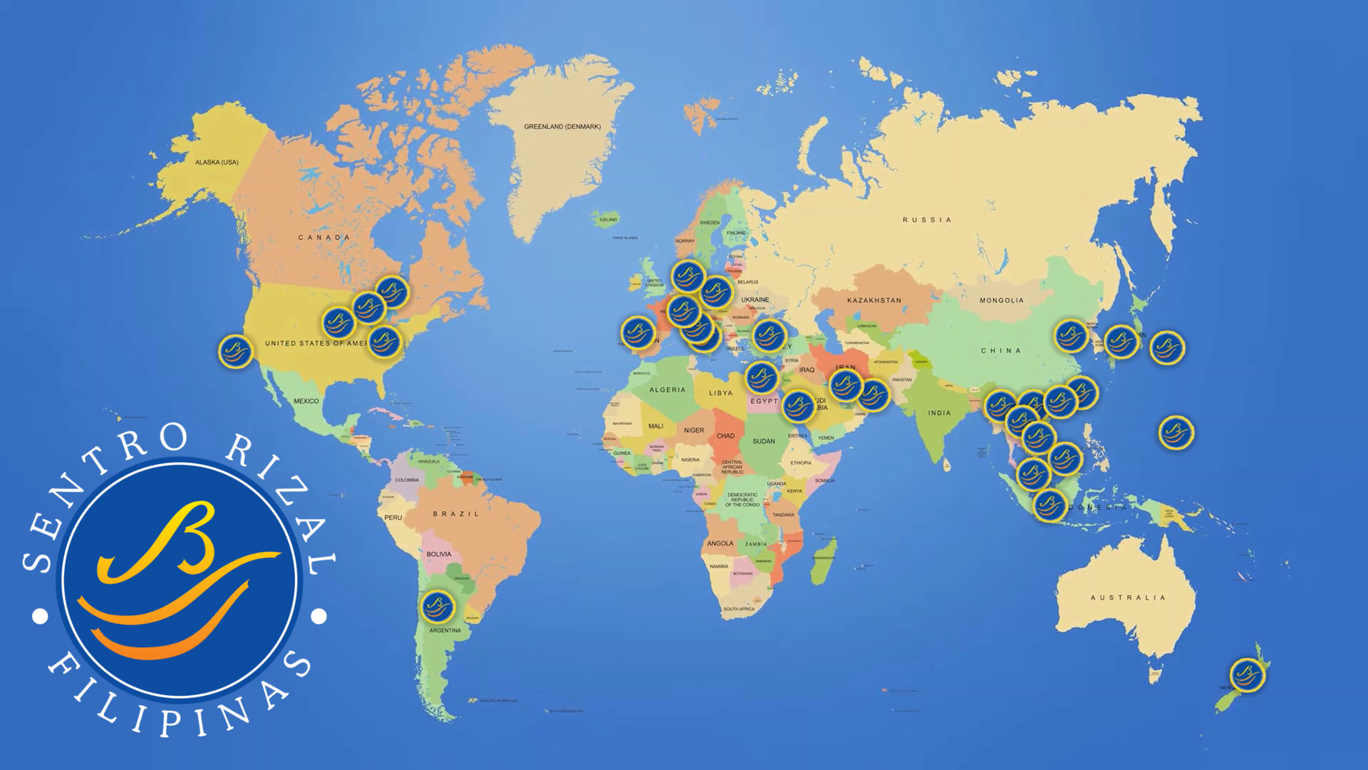 World map showing locations of Sentro Rizal centers